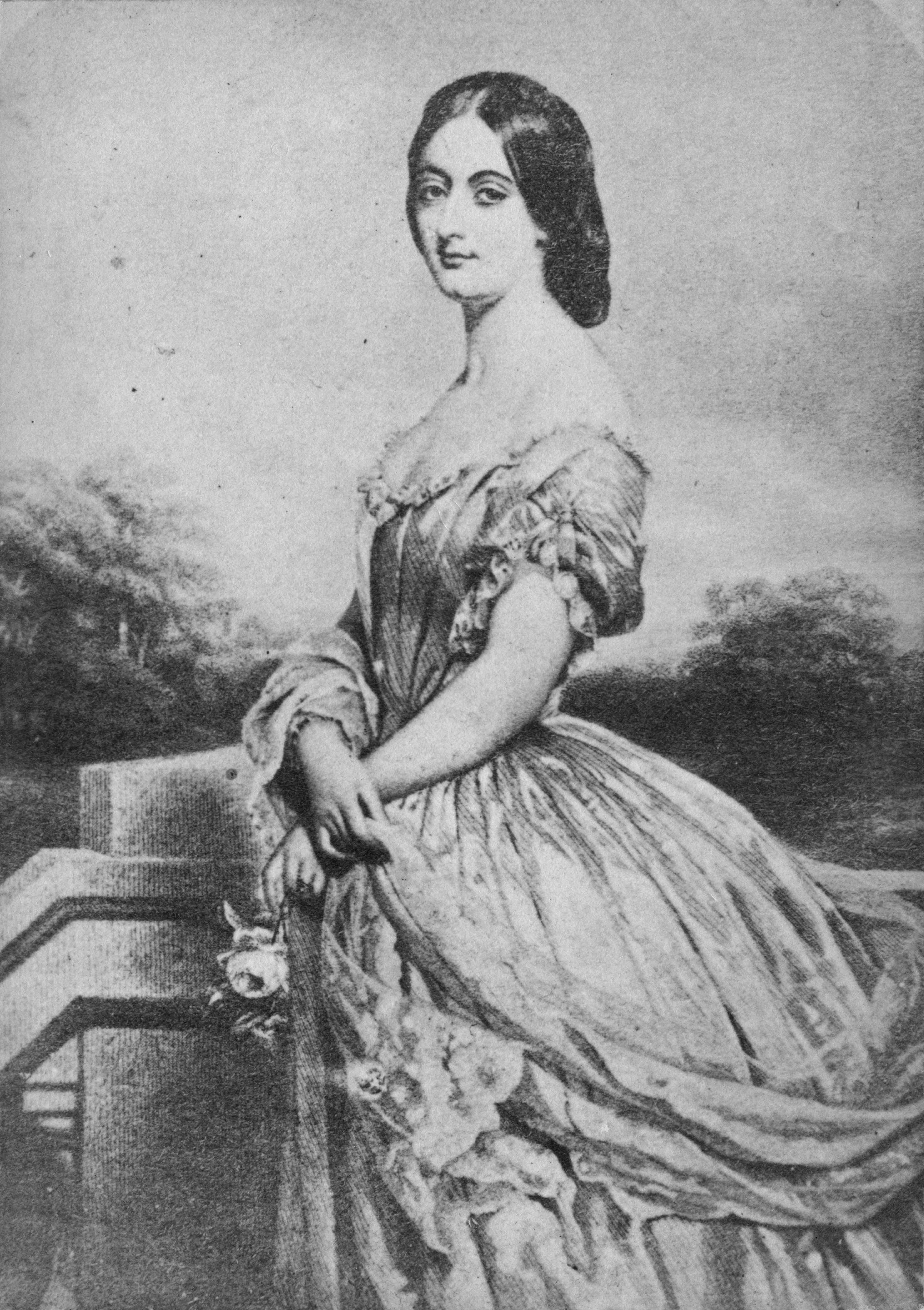 Portrait of Lady Eliza Lucy Grey, painted by William Gush in 1854, and photographed by Bartlett & Co.